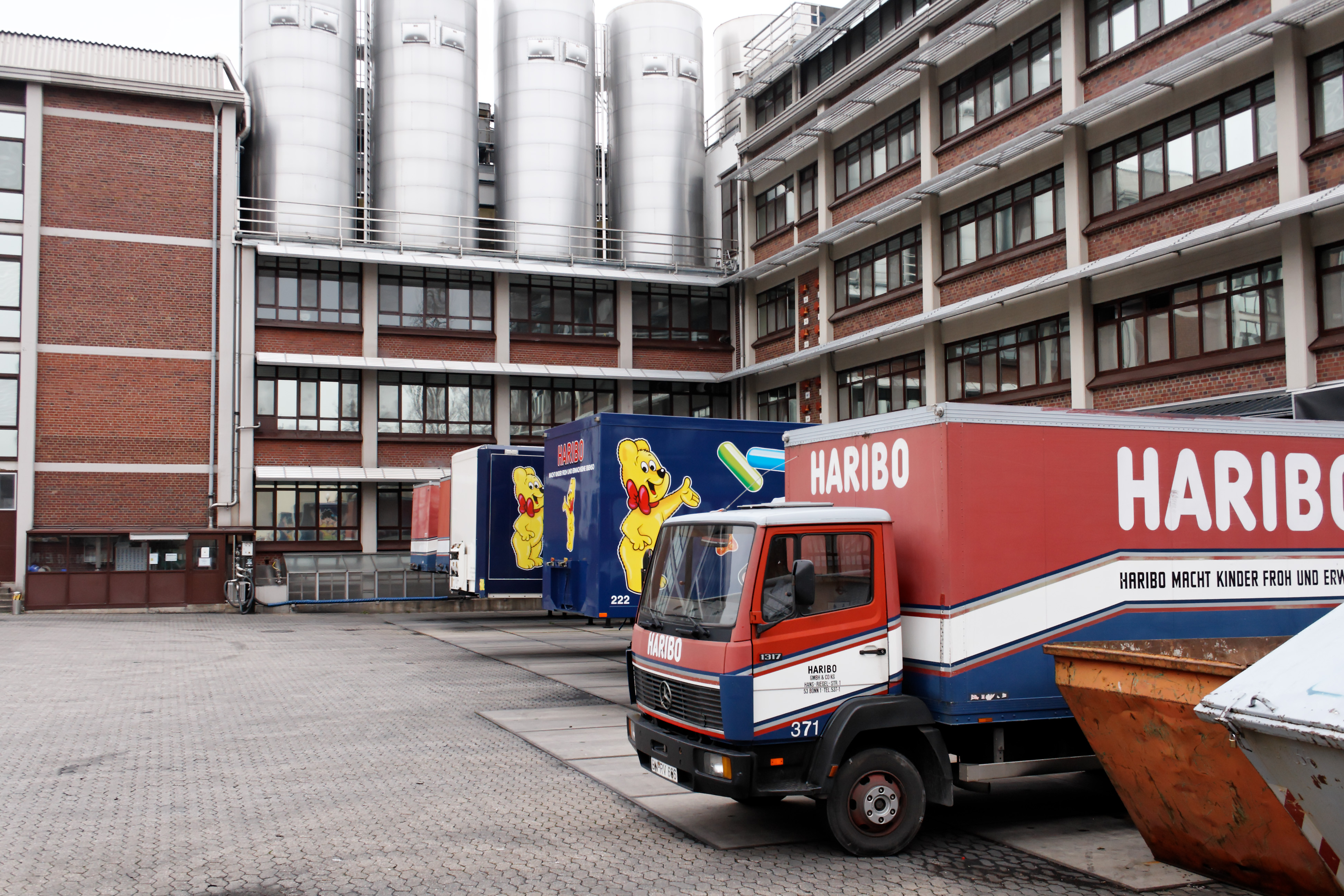 This image shows the logistic division of the Haribo building in Bonn